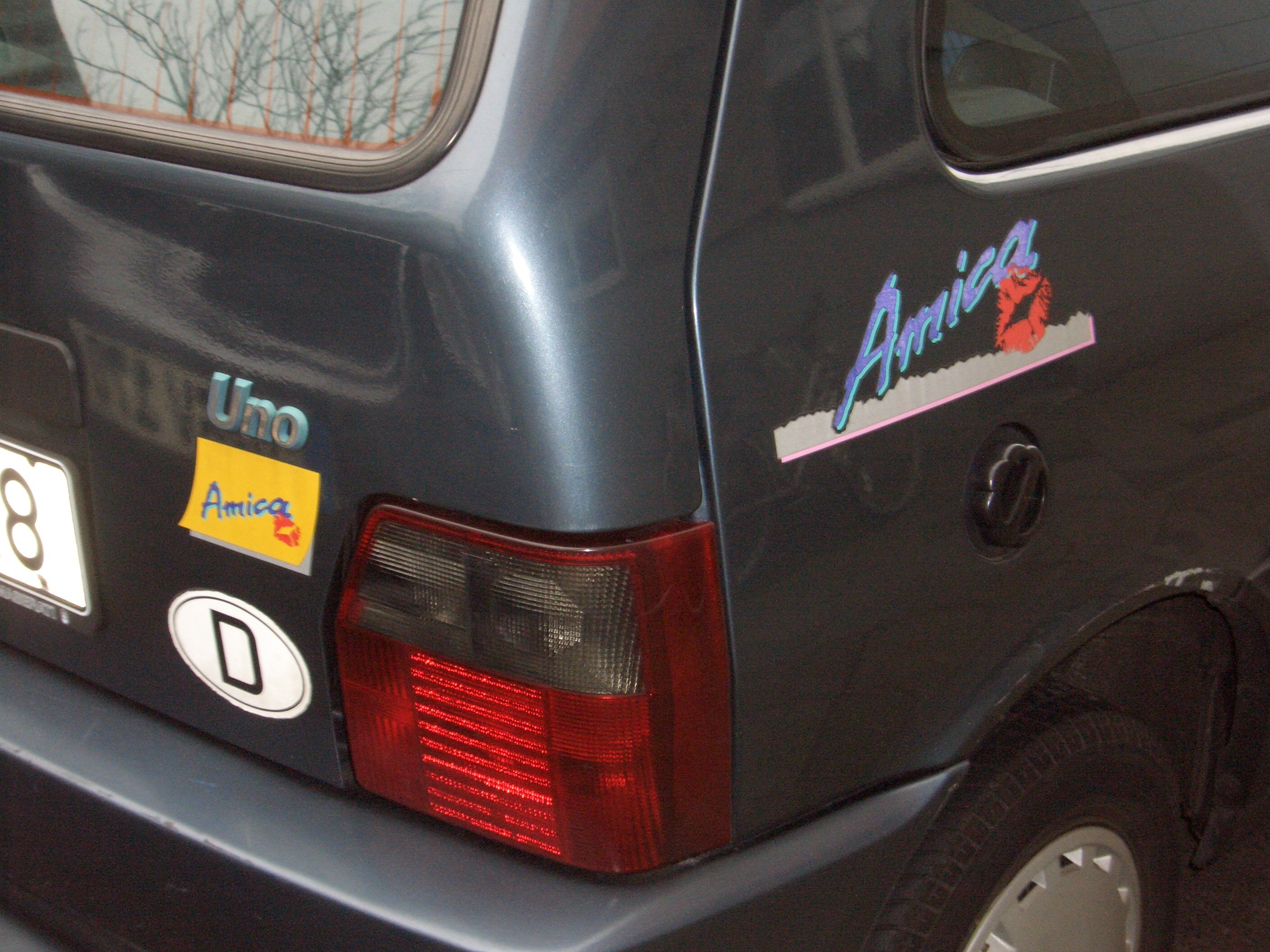 Fiat Uno Mk. 2 (1989-1993), special edition AMICA, badge on right side (below rear window) and back of car